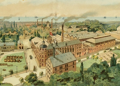 Drawing of the Ny Carlsberg brewery in Copenhagen, Denmark. From an export poster from 1890